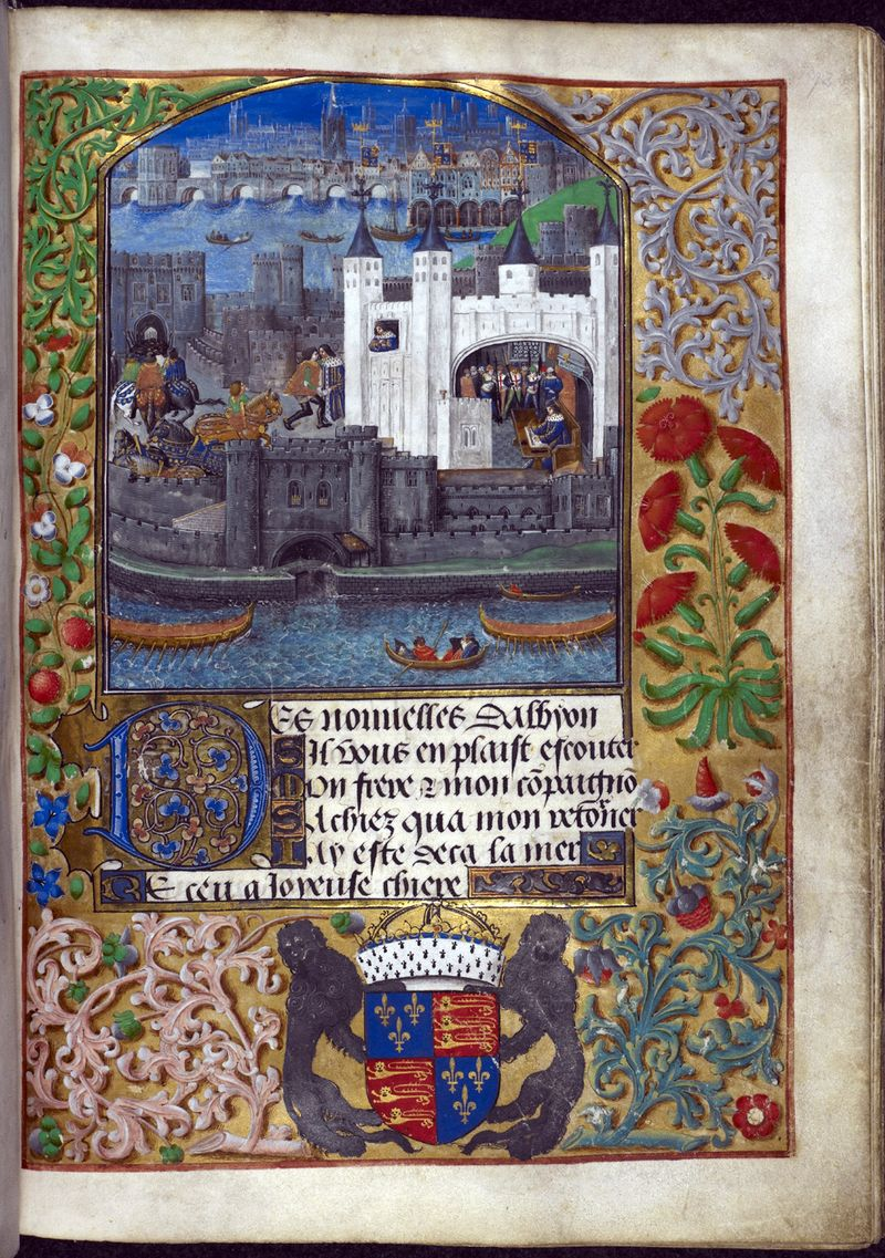 A view of London with the Tower of London, and Duke Charles d’Orléans writing in the Tower, Bruges, c. 1483 (this image) with later additions, c. 1492 – c. 1500: Royal MS 16 F. ii, f. 73] [